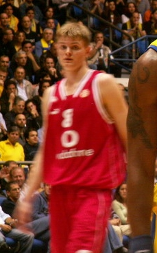 cropped from a Public Domain image